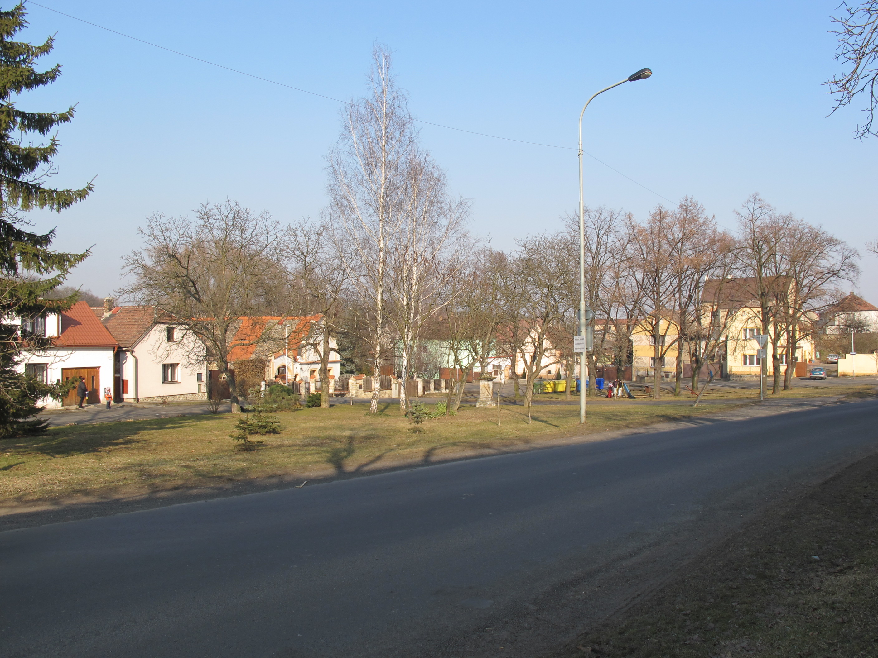 Common village square in Černčice (District Louny), Czech Republic